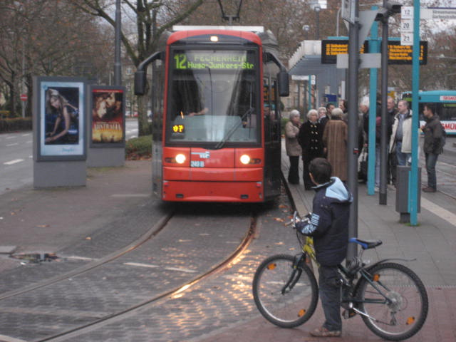 Frankfurt am Main, Stresemannallee / Gartenstraße: exit to one or the other side depending on the type of tram